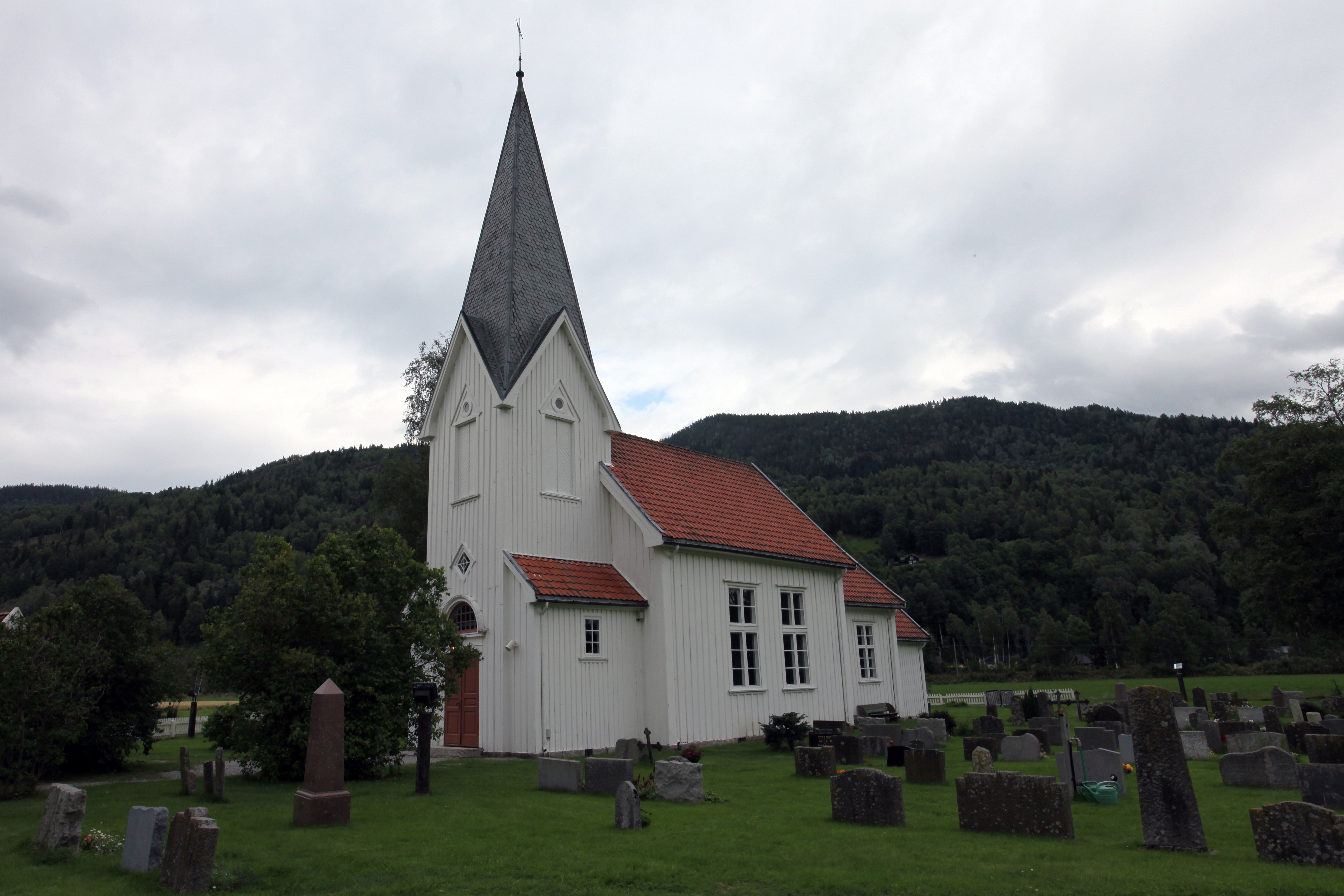 Picture of Flatdal church (Telemark - Norway)